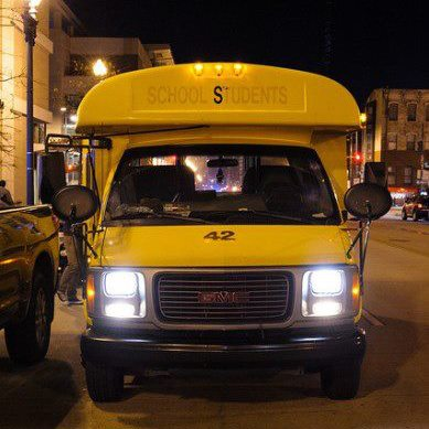 Tour bus